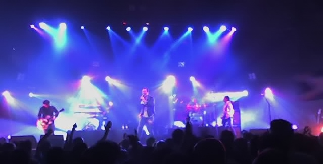 Source - Concert in Verona, Italy, 21st march of 2006